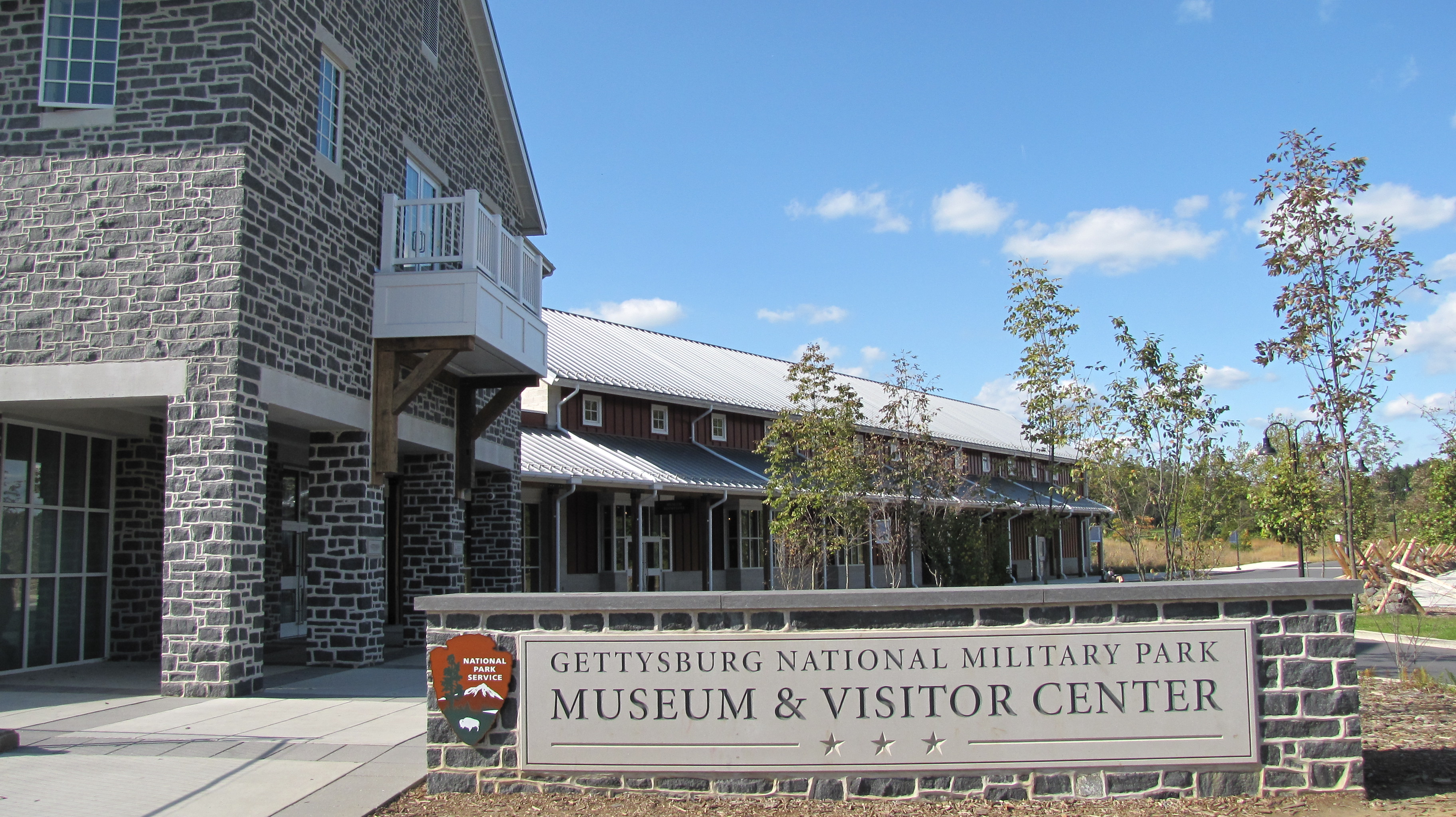 Entrance to new Visitor Center, Gettysburg Military Park